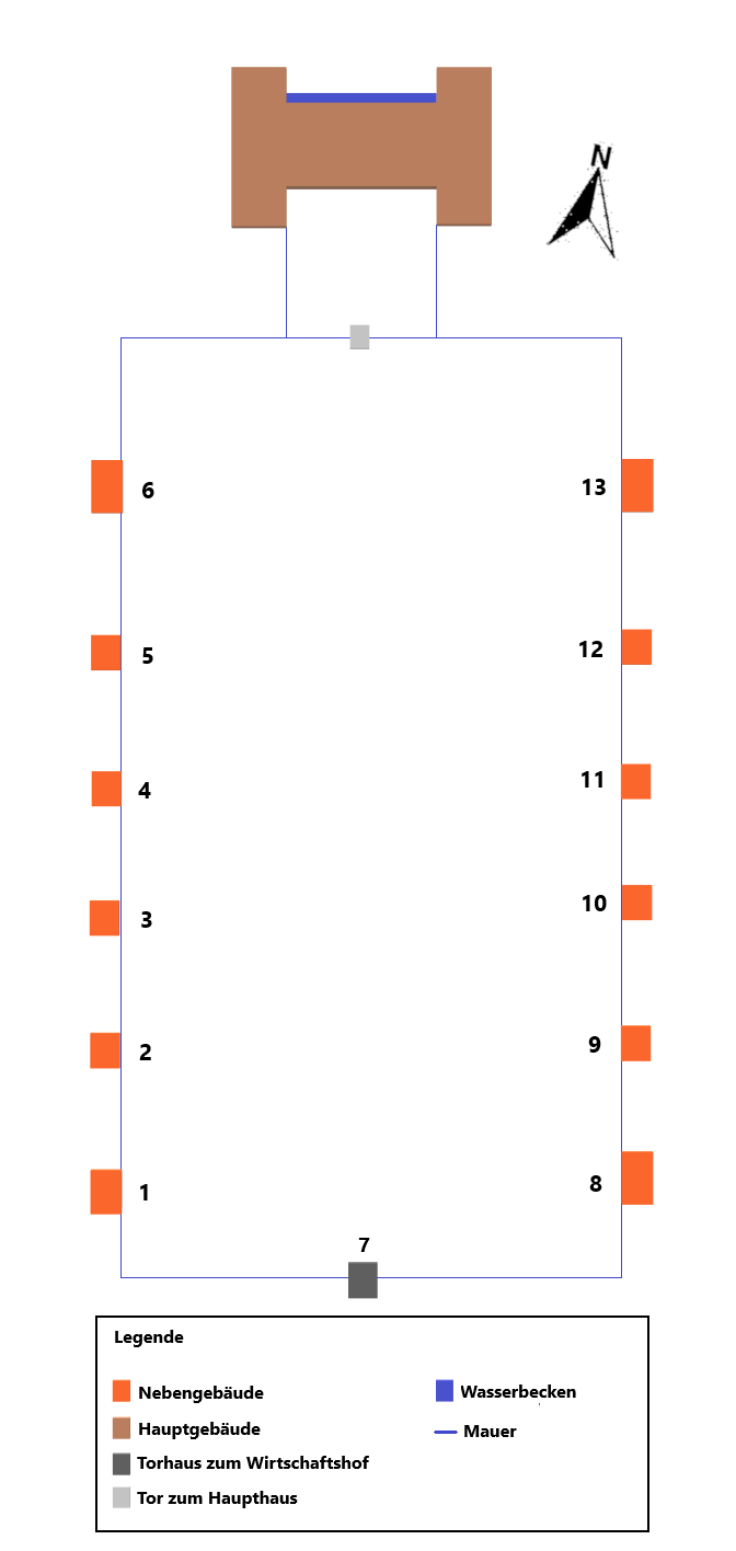 General plan of the villa complex